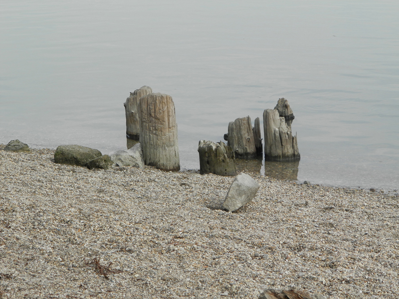 remains of the roman harbor